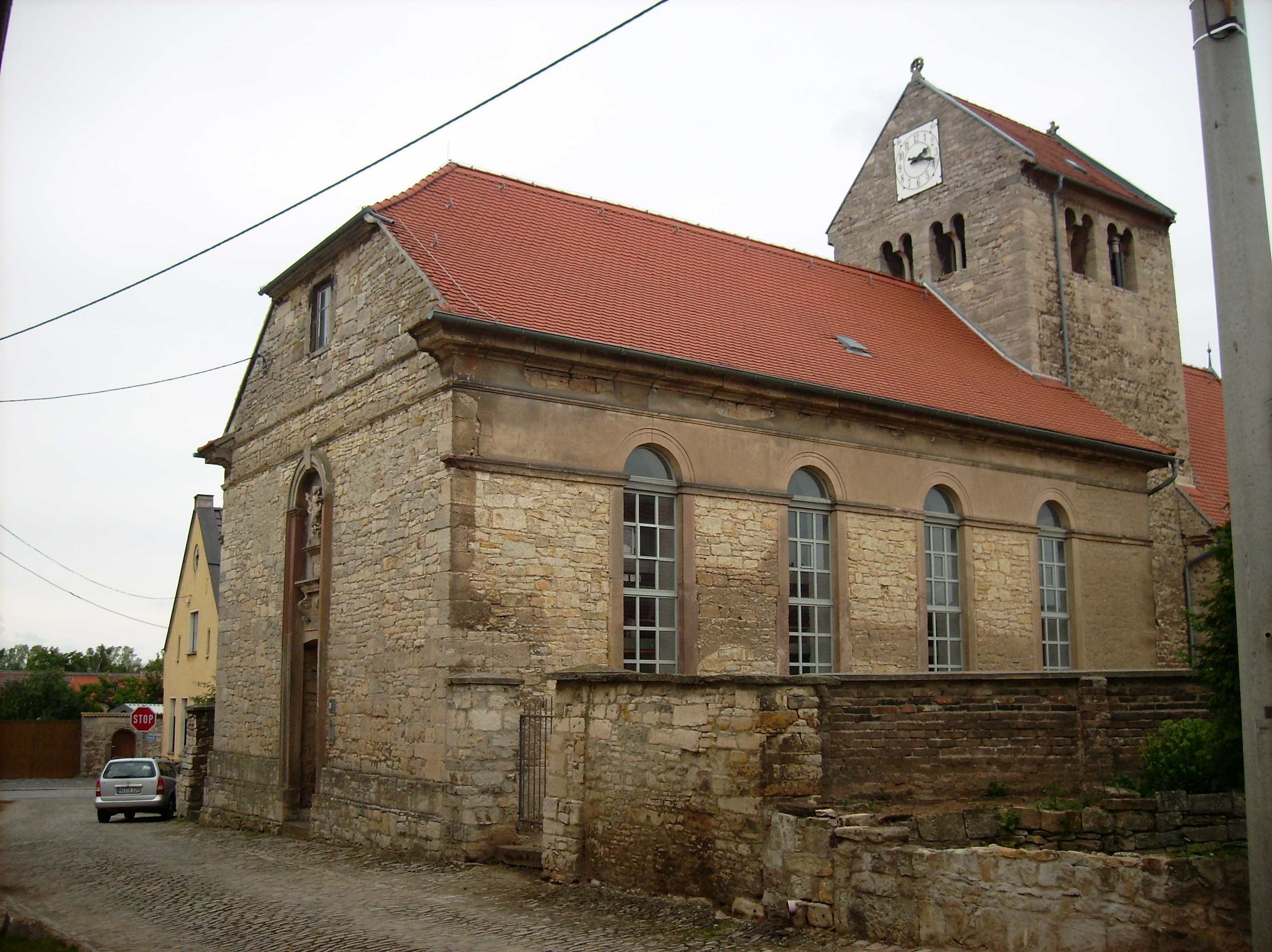 St. Magnus Church, Albersroda (Steigra, district of Saalekreis, Saxony-Anhalt)